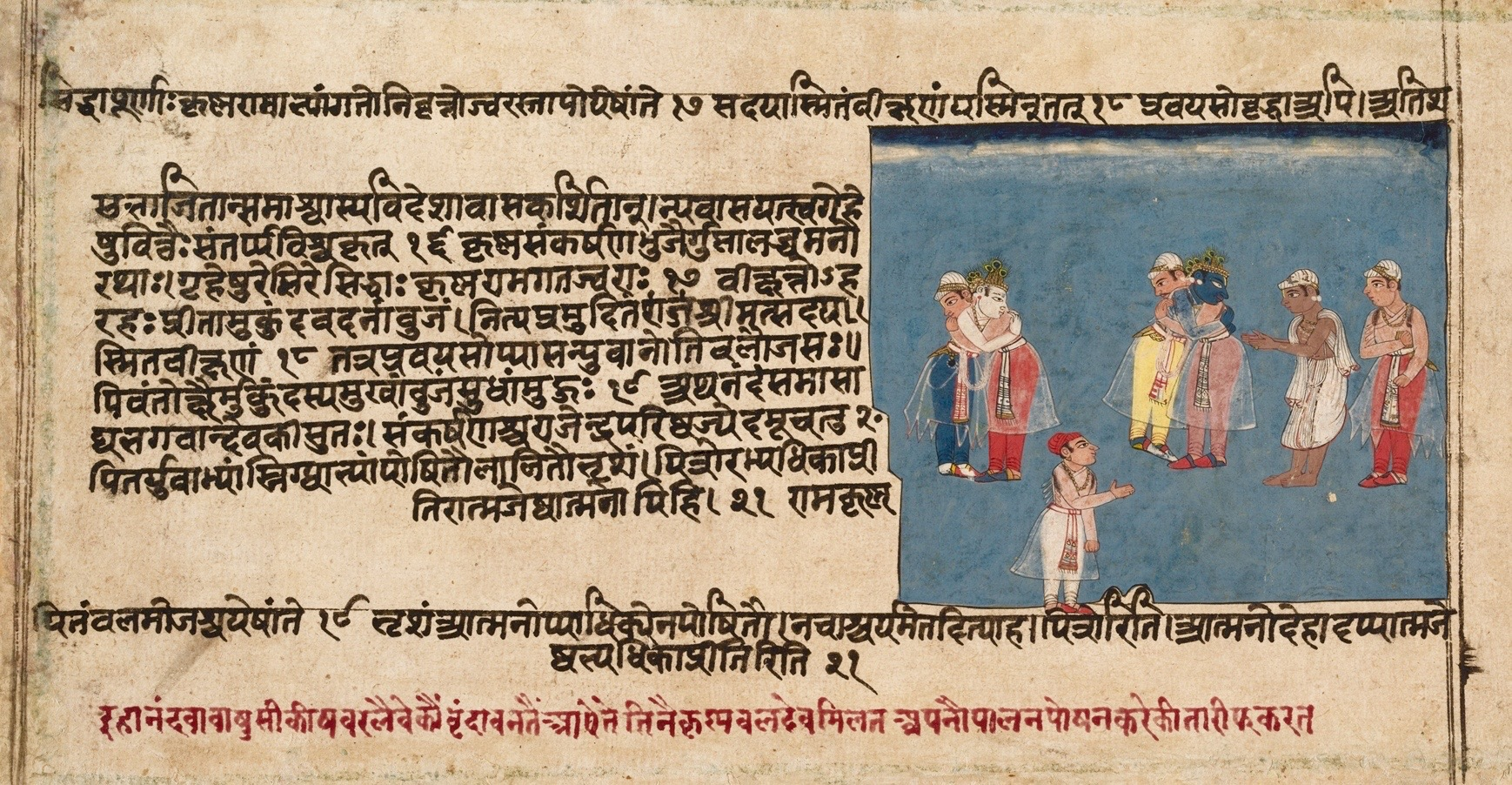 Date: ca. 1630–50 Manuscript origin: India (Rajasthan, possibly Mewar) Medium: Ink and opaque watercolor on paper